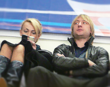 Evgeni Plushenko visiting Cup of Russia 2008, in Khodynka Arena in 2008. The woman with him is his girlfriend (later wife) Yana Rudkovskaya (Russian record producer, born in 1975).